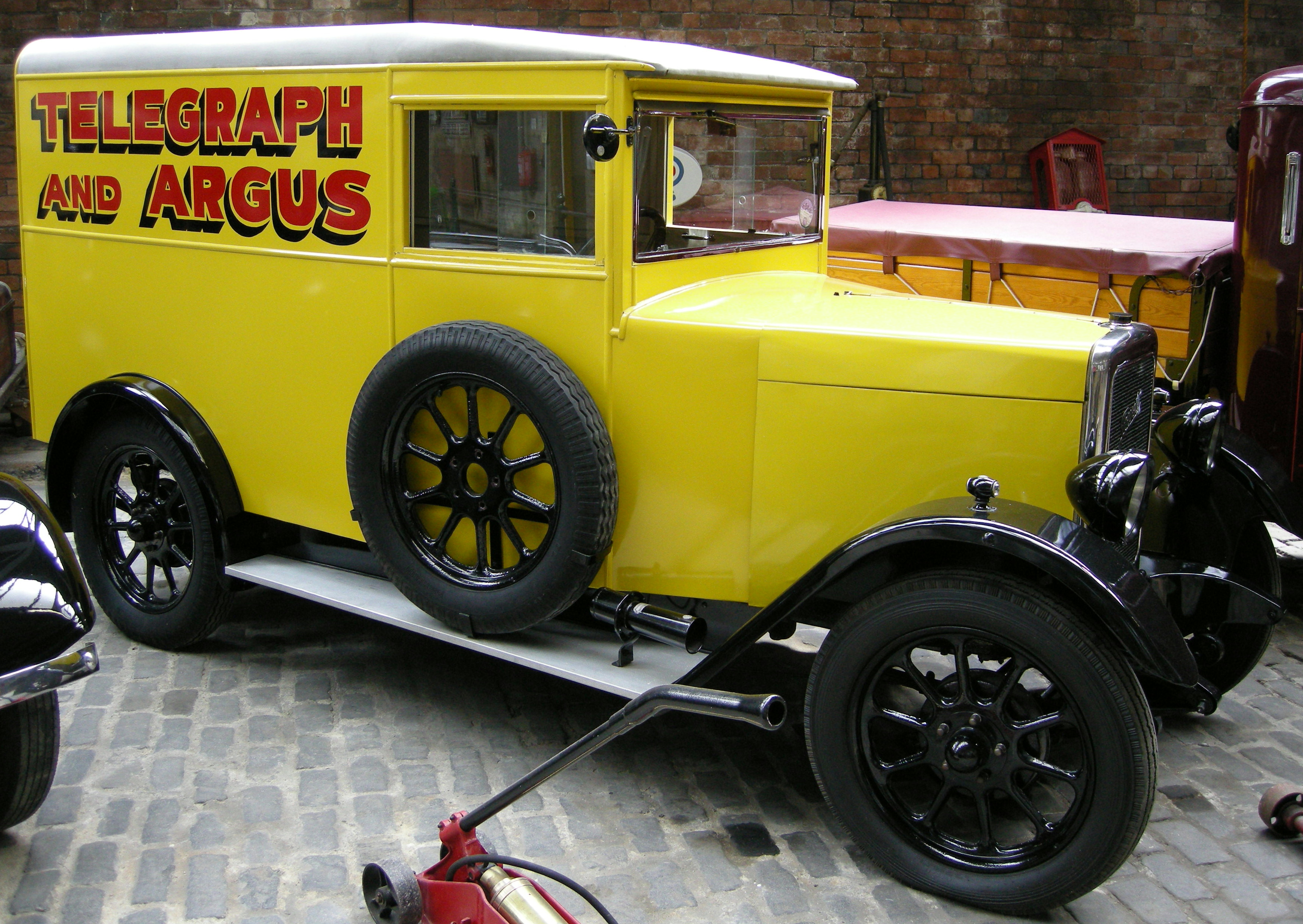 Classic van once used by Bradford Telegraph and Argus, now in Bradford Industrial Museum, Bradford, West Yorkshire, England.